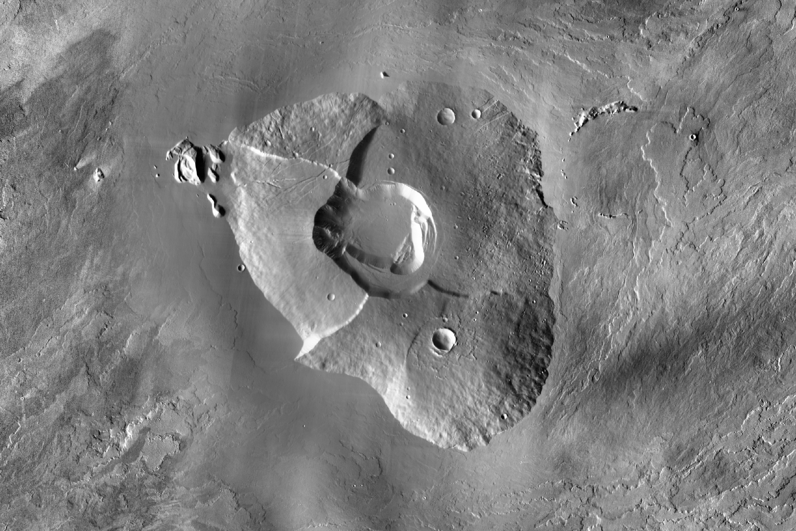 THEMIS daytime infrared image mosaic showing the volcano Tharsis Tholus in the eastern part of the Tharsis region of Mars.